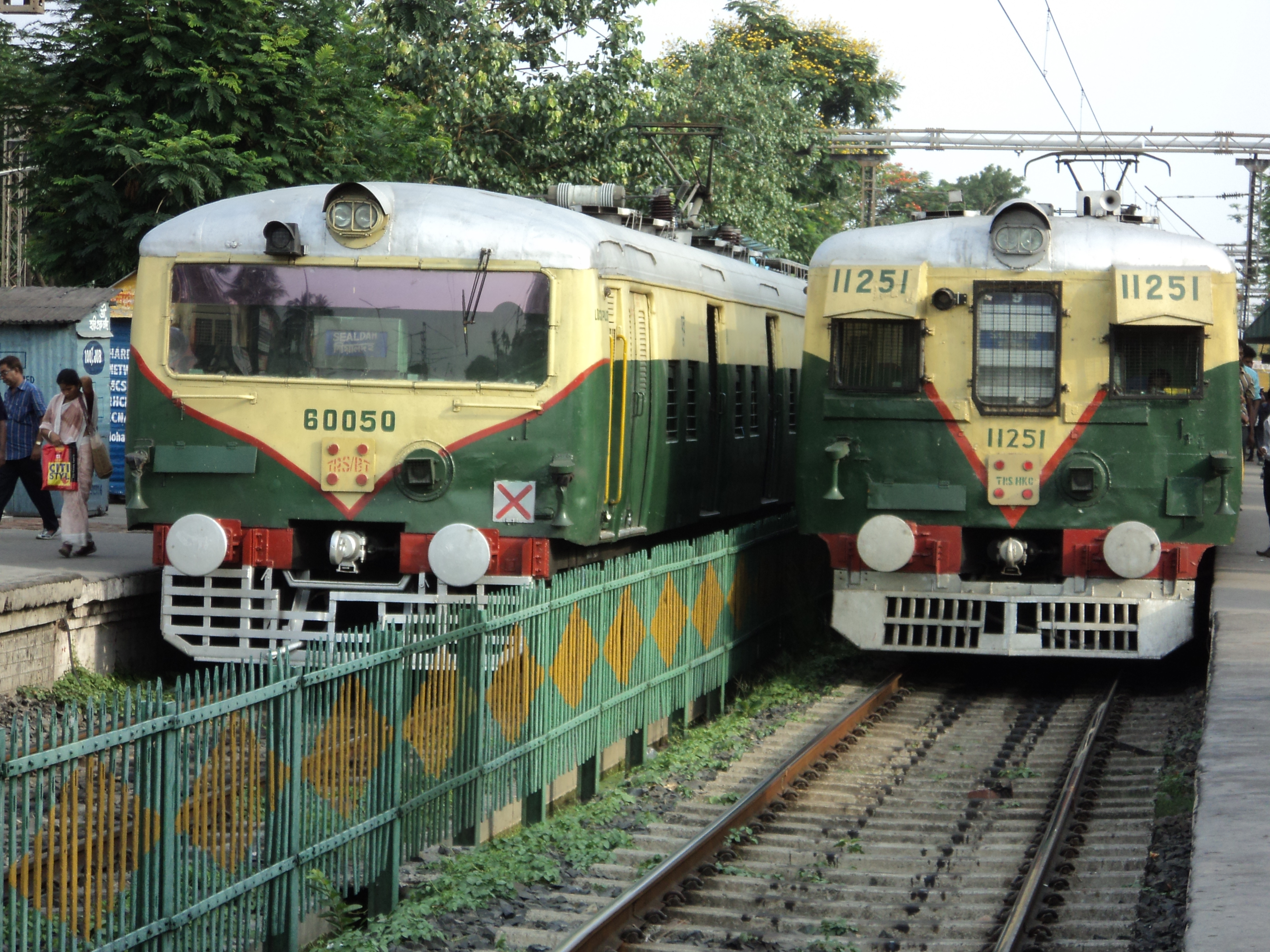 Local Train in Agarpara Station